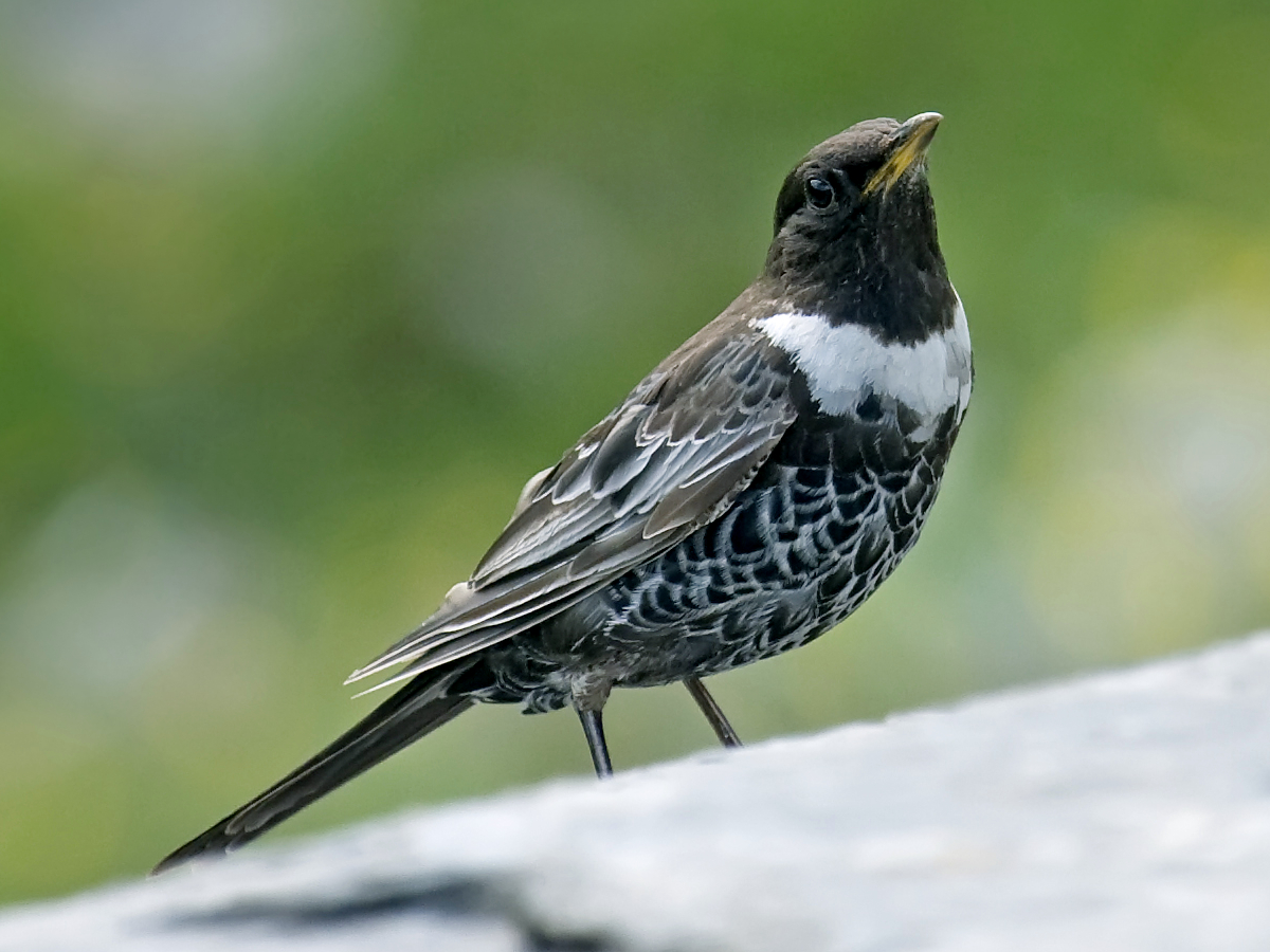 Ring Ouzel